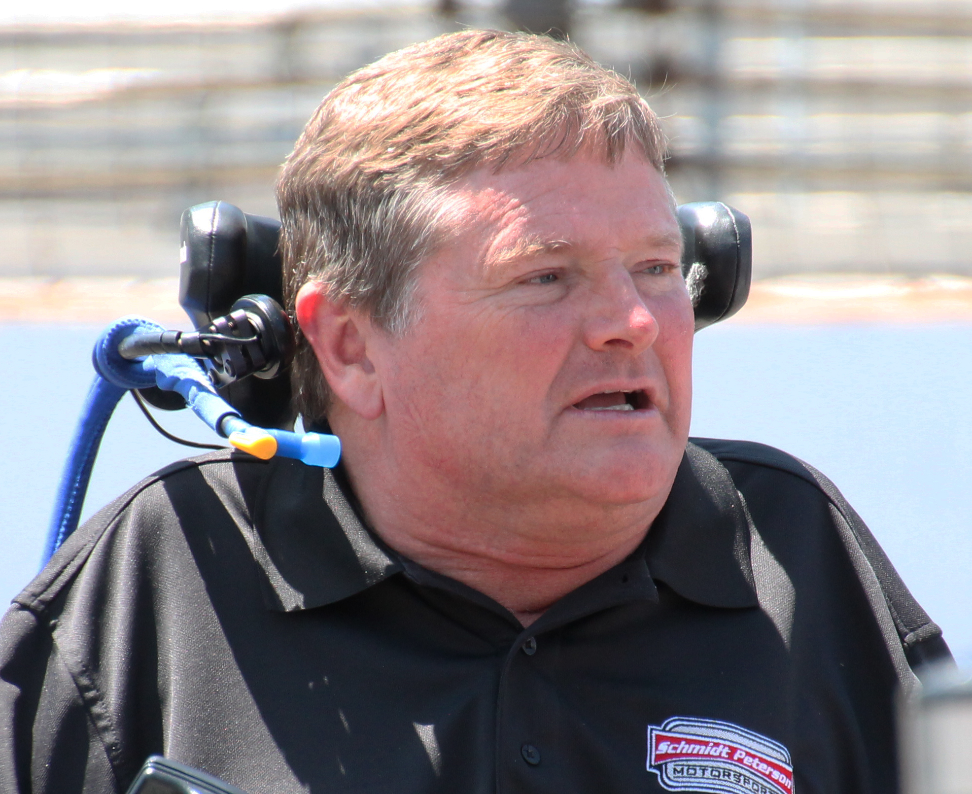 Sam Schmidt at Carb Day 2015 at the Indianapolis Motor Speedway